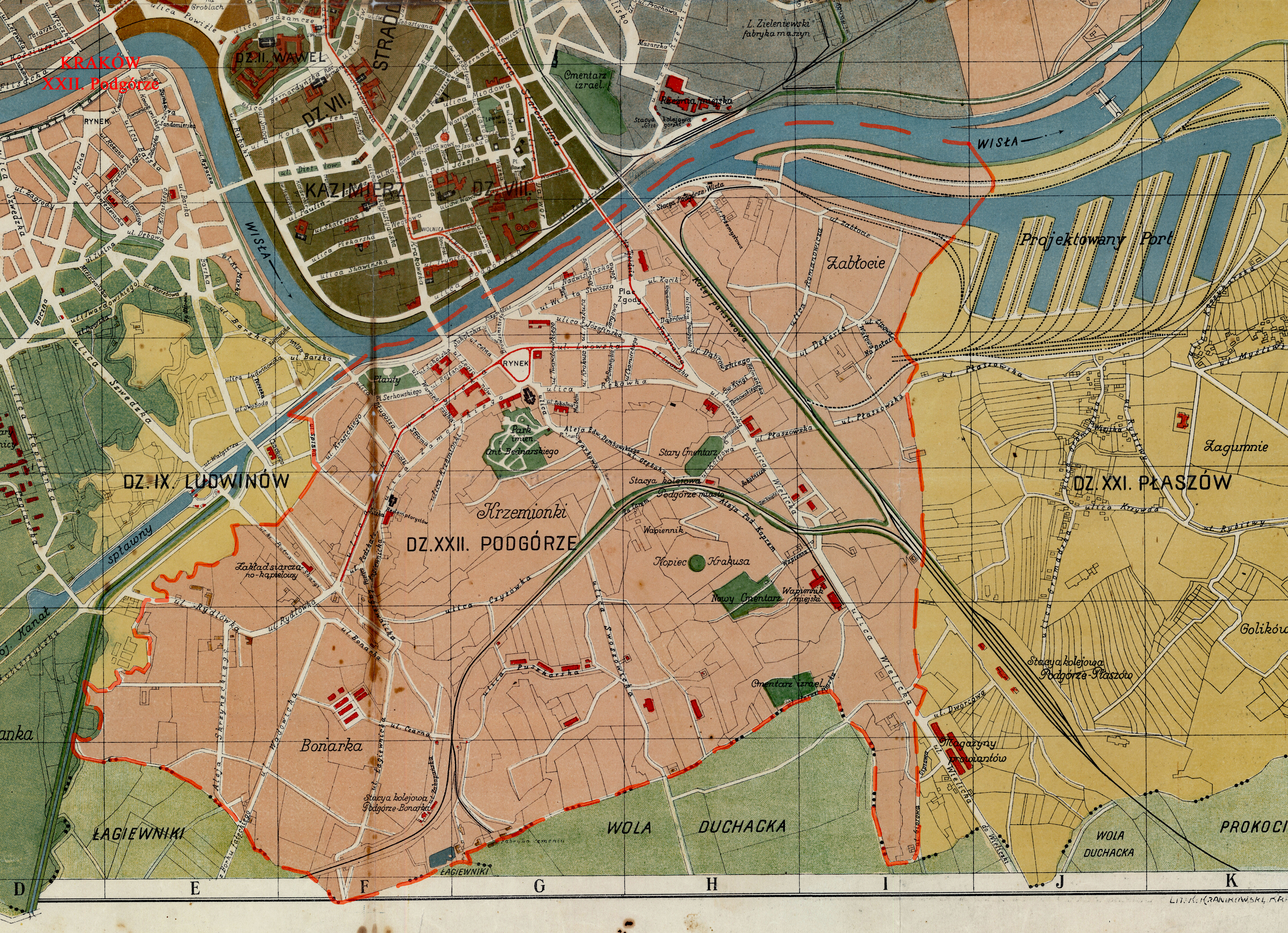 Podgórze District of Cracow in 1916